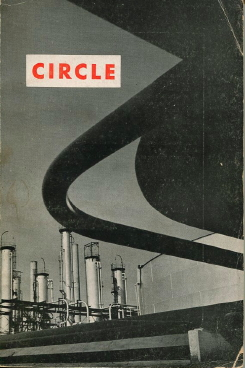 Cover of 10th issue of Circle Magazine, 1948